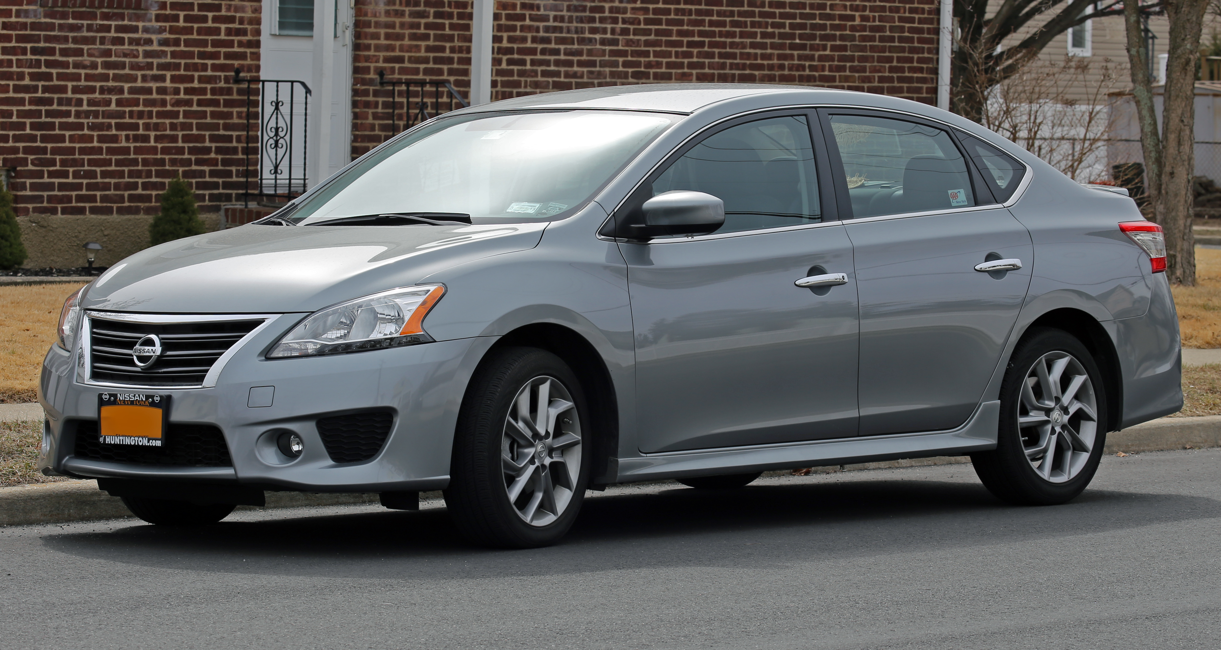 2013 Nissan Sentra SR, built in Aguascalientes, Mexico. 1.8 liter inline-four.